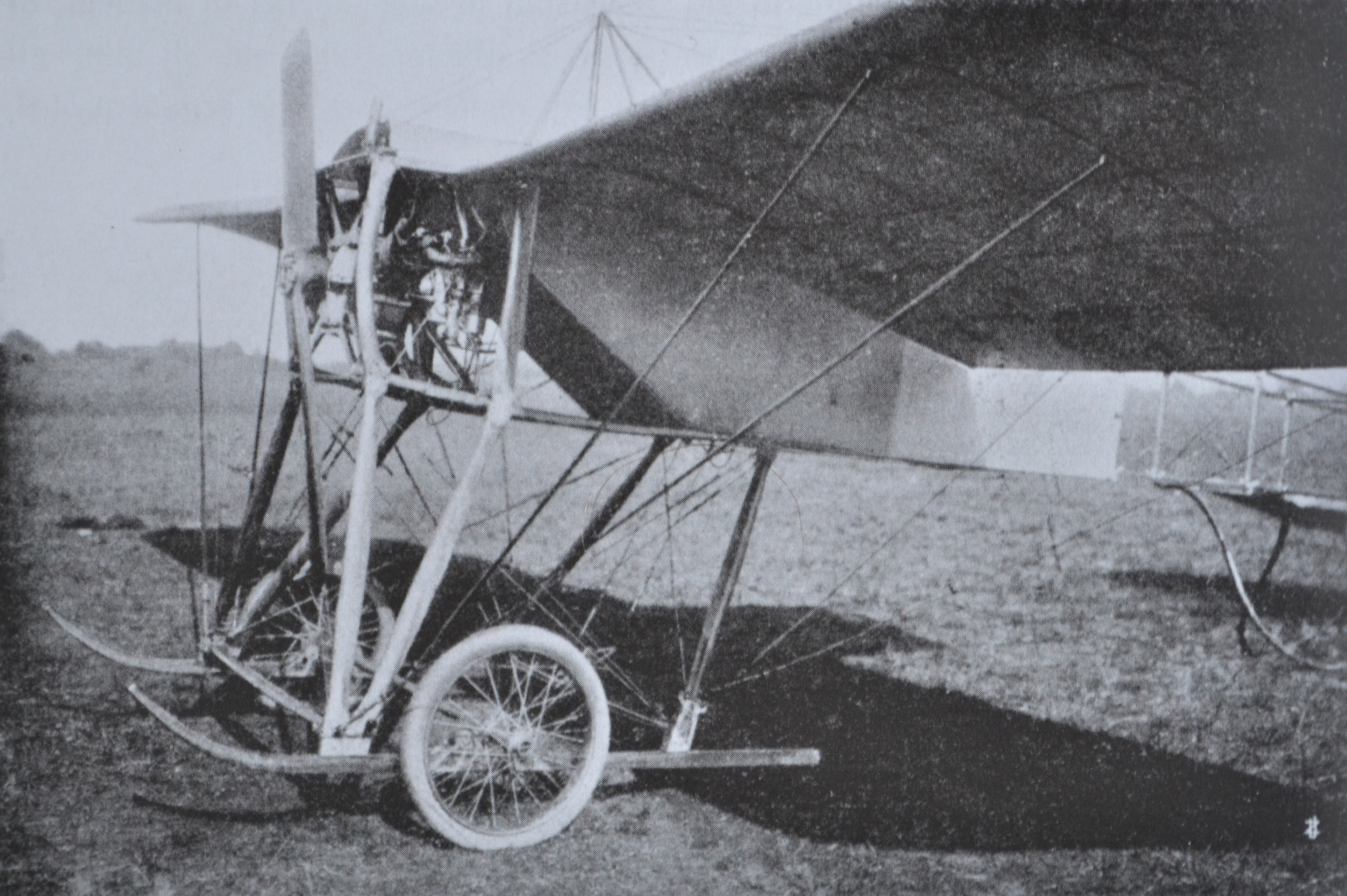 "The first Caproni monoplane" (translation of the original caption).